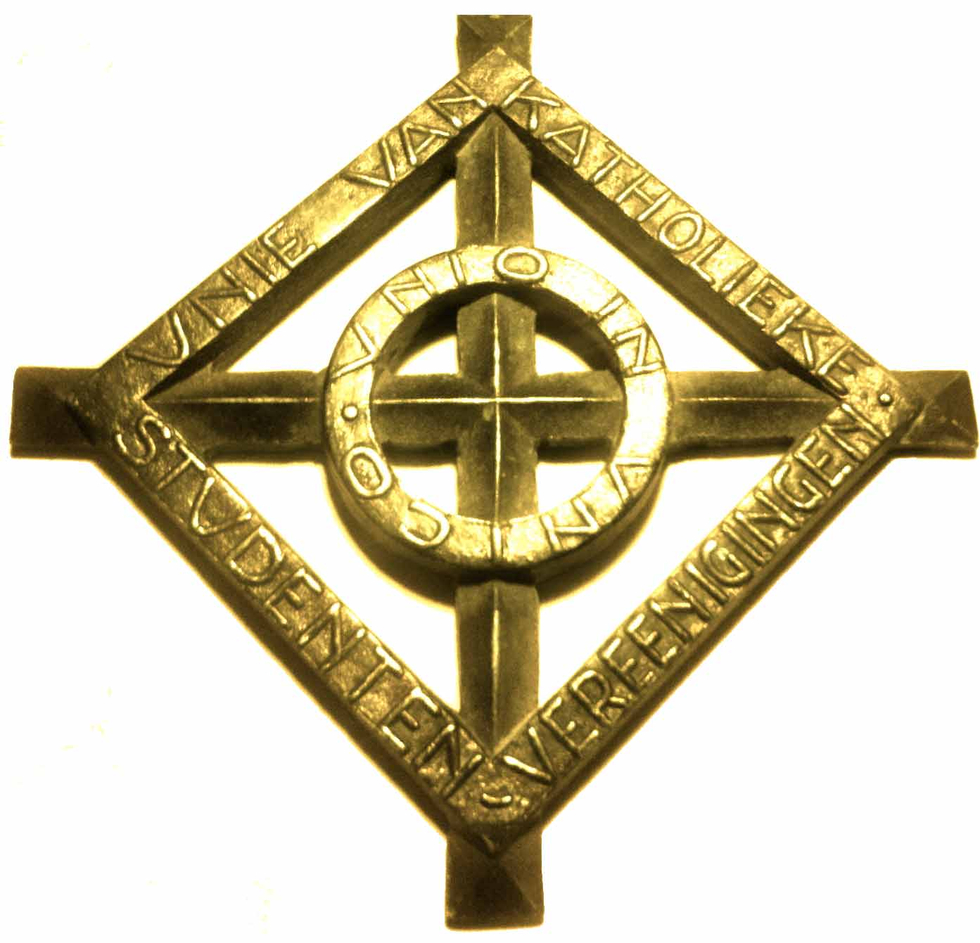 Shield of the Union of Catholic Student Unions in the Netherlands